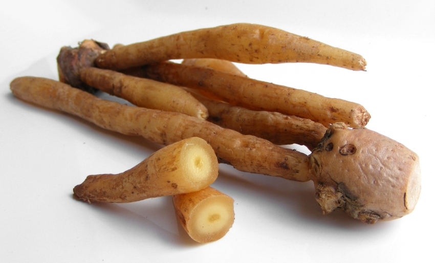 Chinese ginger or fingerroot. Taste a lot like ginger, only "stronger". a little bit medicinal. Nice in fish-curries. Meer weten over Chinese Gember? Surf naar Aziatische-ingredienten.nl